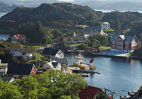 Espevær harbour. Location: municipality Bømlo in the county of Hordaland, Norway